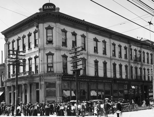 National Bank of the Republic & White House Hotel SLC UT, street scene, 1908. Commercial photo taken on assignment, published circa 1908.